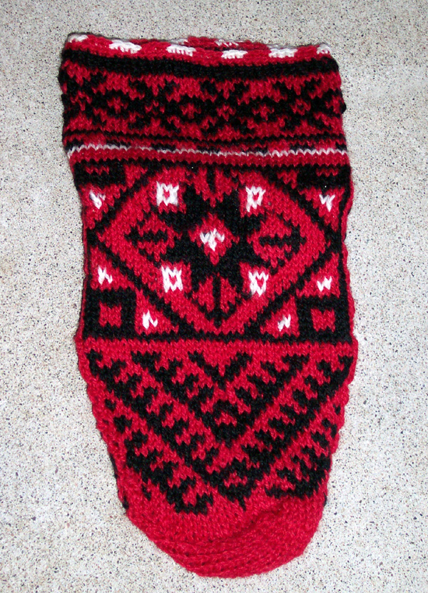 Hand knitted jorabs.